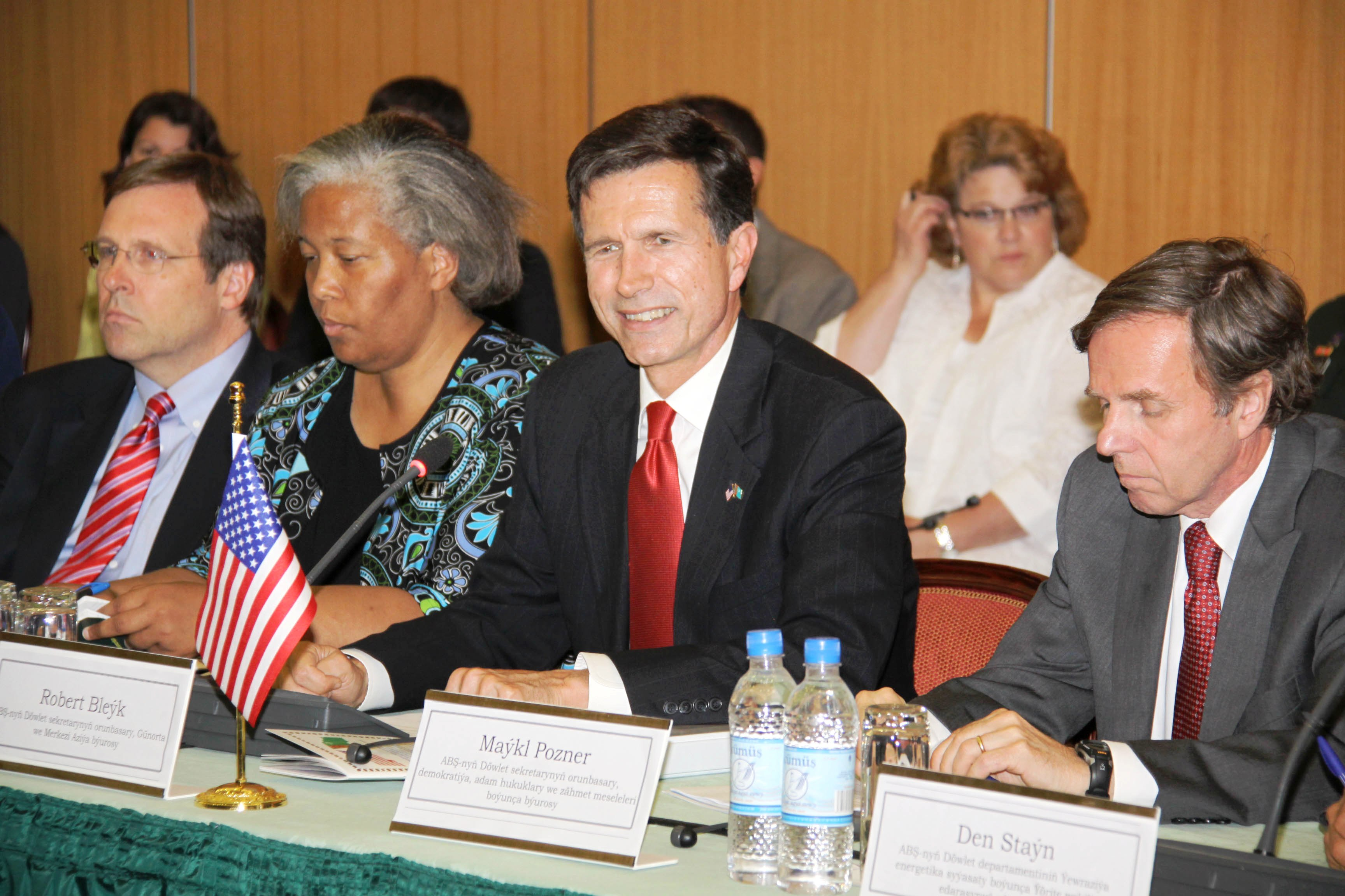 U.S. Assistant Secretary of State for South and Central Asian Affairs Robert O. Blake, U.S. Assistant Secretary for Democracy, Human Rights and Labor Michael H. Posner, and U.S. Embassy Ashgabat in Turkmenistan, Chargé d'Affaires Sylvia Curran participate in the opening of the Annual Bilateral Consultations (ABCs) between the Government of Turkmenistan and the Government of the United States in Ashgabat, Turkmenistan, on June 14, 2010. [State Department photo/ Public Domain]